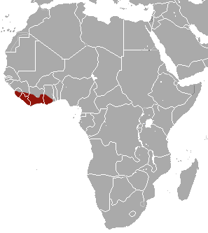 West African Long-tailed Shrew (Crocidura muricauda) range